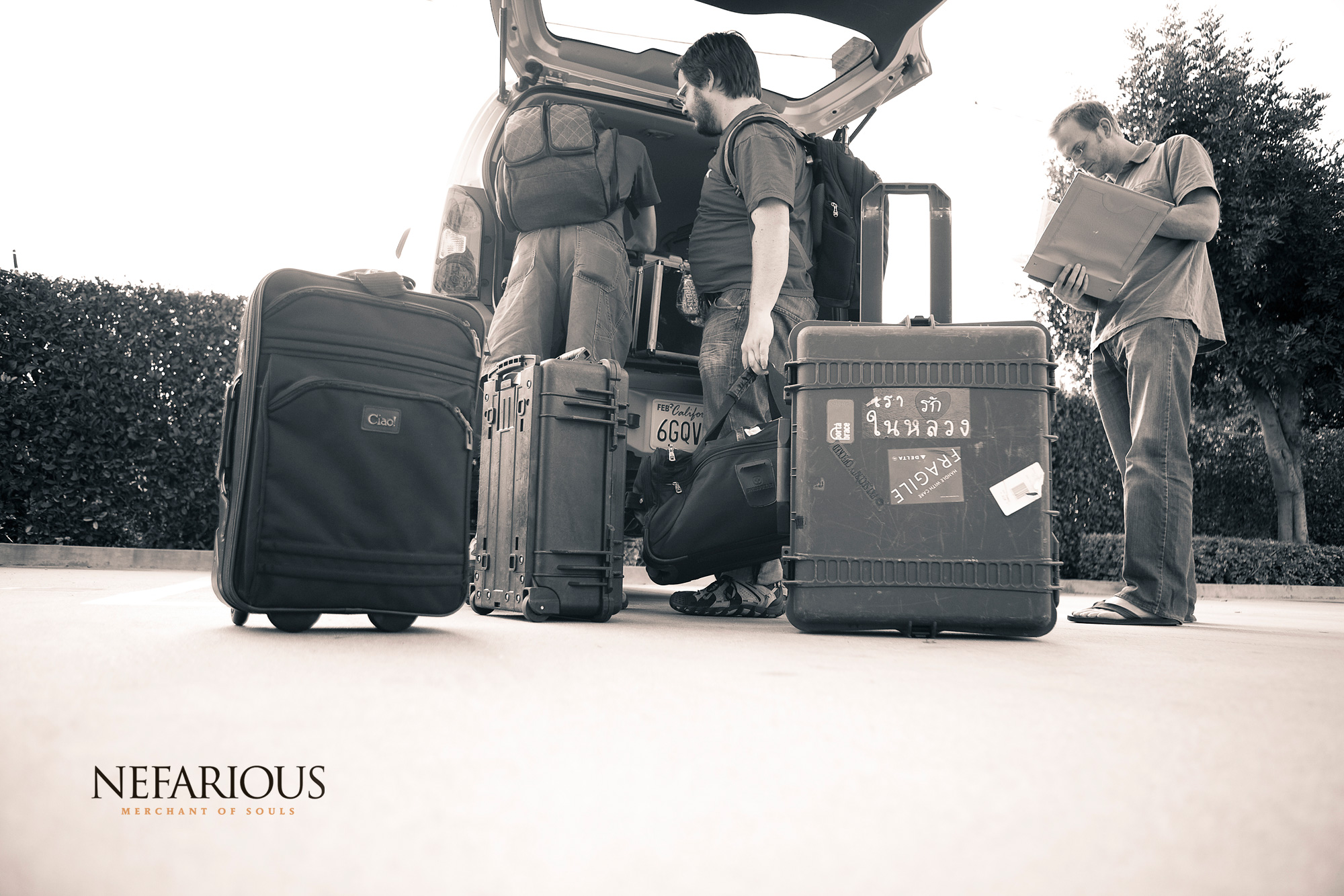 The production crew of Nefarious: Merchant of Souls travelling during the filming stage.